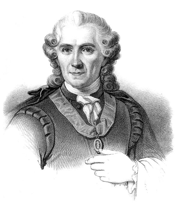 Torbern Olof Bergman (1735-1784)